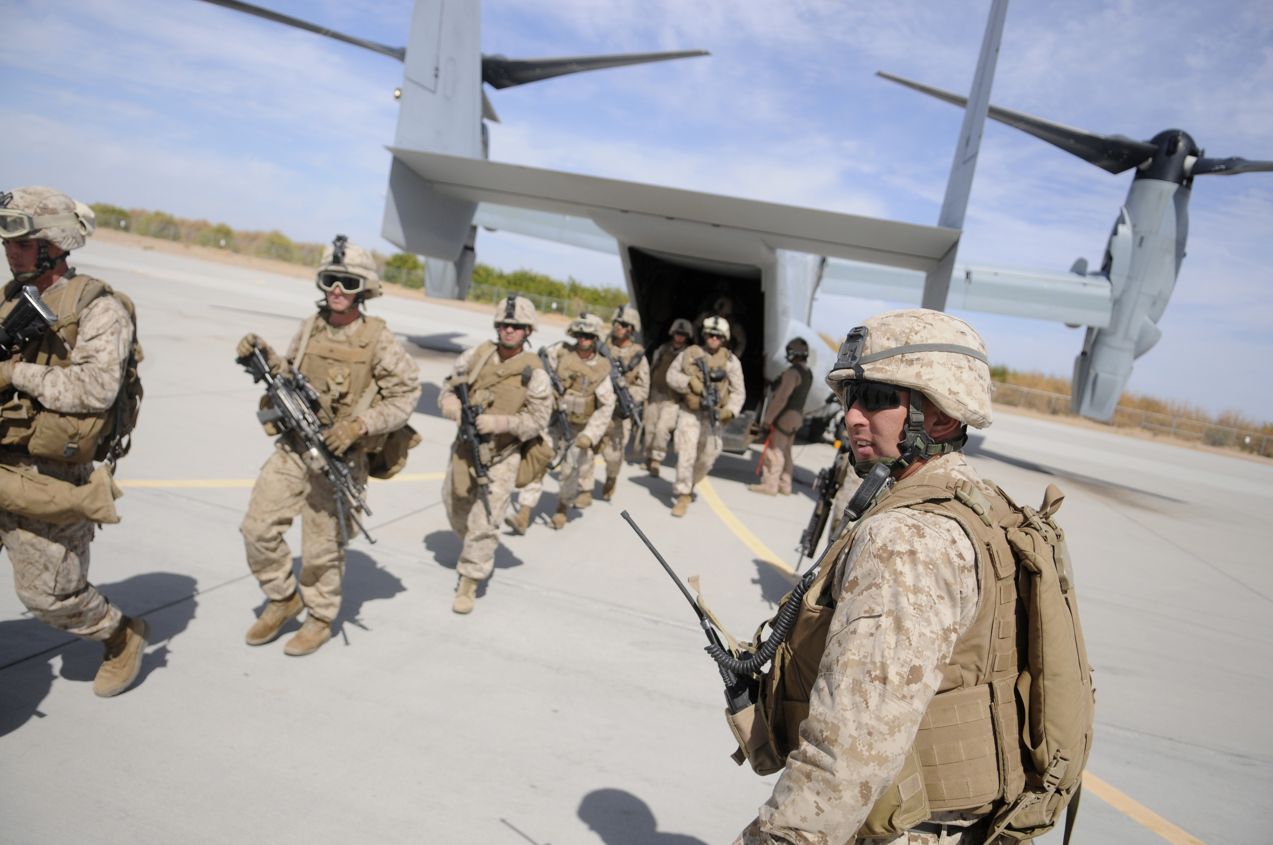 Staff Sgt. Harold Young, platoon sergeant with E Company, 2nd Battalion, 7th Marine Regiment, watches his Marines exit an MV-22 Osprey on the flight line of the Marine Corps Air Station in Yuma, Ariz., on Oct. 10, 2009, following a helicopter raid exercise. For most of the Marines including Young, the ride on the Corps' tilt-rotor aircraft was a first. The battalion, based in Twentynine Palms, Calif., is scheduled to deploy with the 31st Marine Expeditionary Unit in early 2010, with E Company assigned to specialize in helicopter insertions and raids.